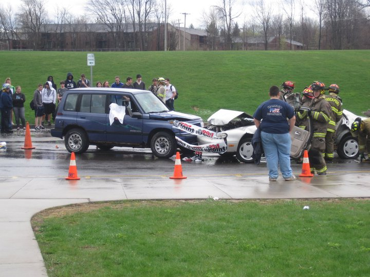 Point Pledge